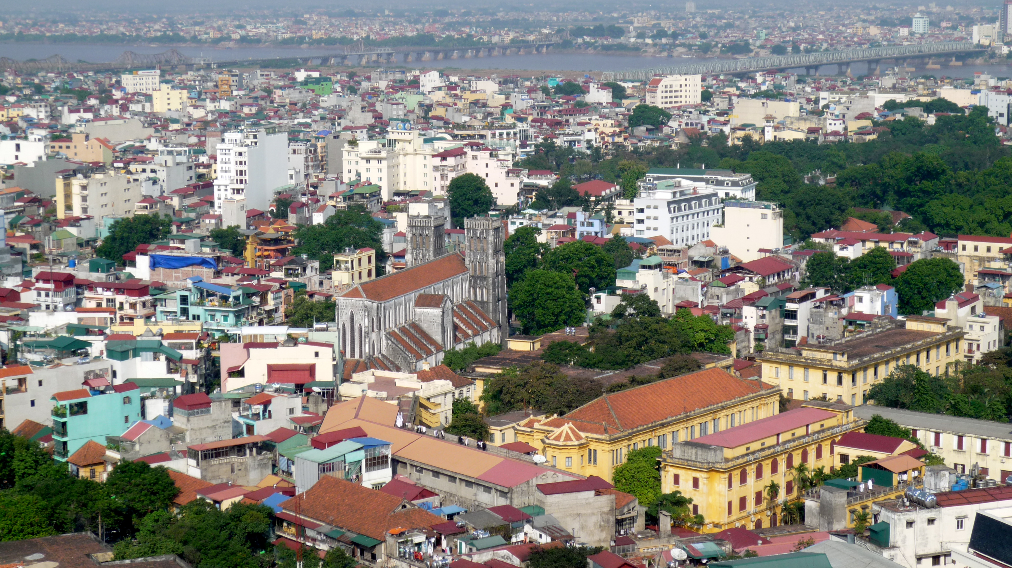 View of Hanoi with St. Joseph's Cathedral and Chuong Duong Bridge